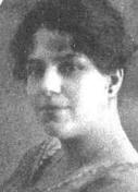 Spanish Actress Guadalupe Muñoz Sampedro